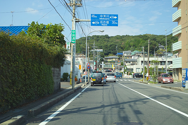 End point of the Aichi Prefectural Road and Gifu Prefectural Road Route 15 in Tajimi City, Gifu Prefecture. Here it meets the National Route 19